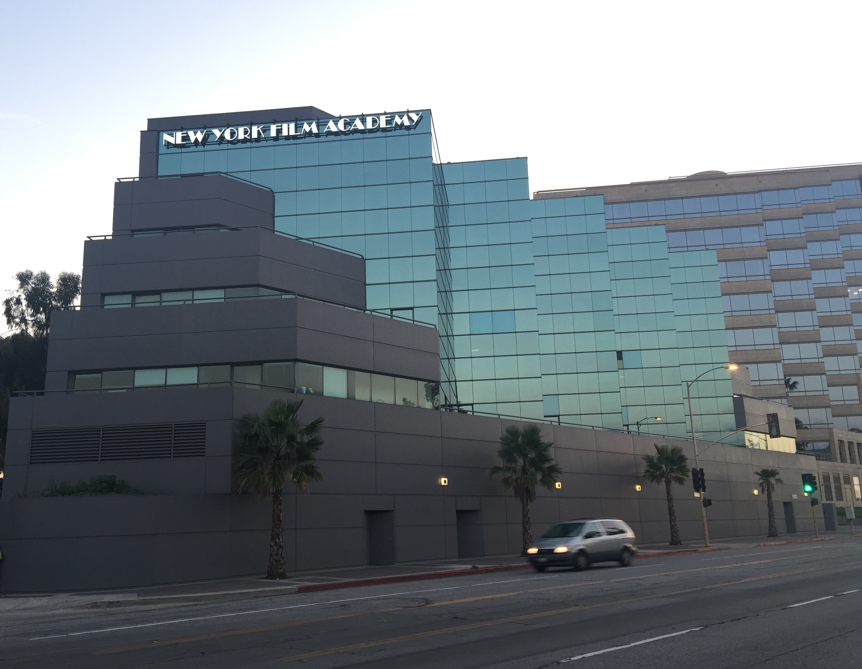 The New York Film Academy: College of Visual and Performing Arts on Riverside Drive in Burbank, CA.